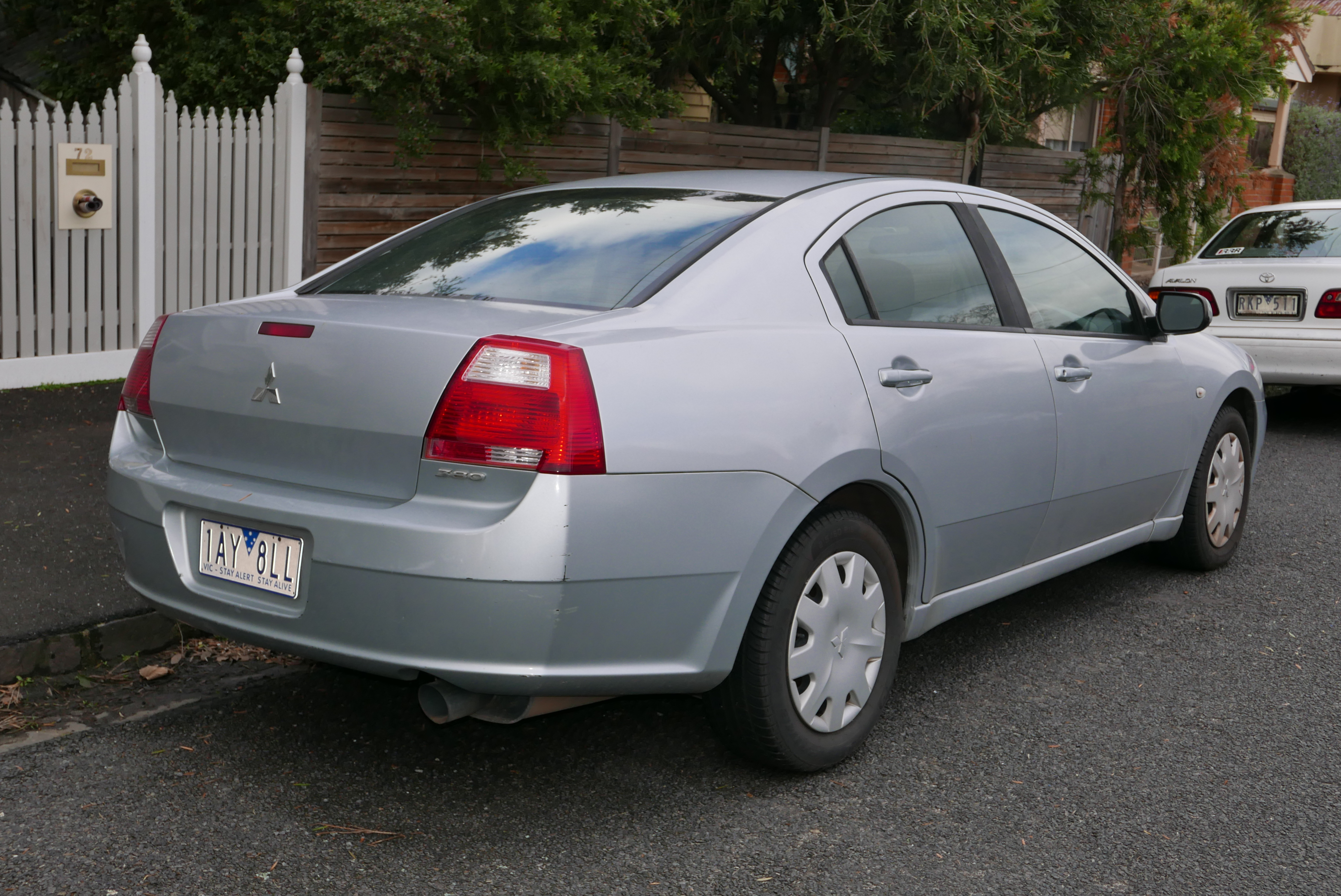 2005 Mitsubishi 380 (DB) sedan. Photographed in Brunswick, Victoria, Australia. Vehicle registration enquiry resultsJurisdictionVictoriaRegistration1AY8LLChassis code6MMDB1D415T007570Engine code6G75SG1540Compliance date2005-12Year of manufacture2005